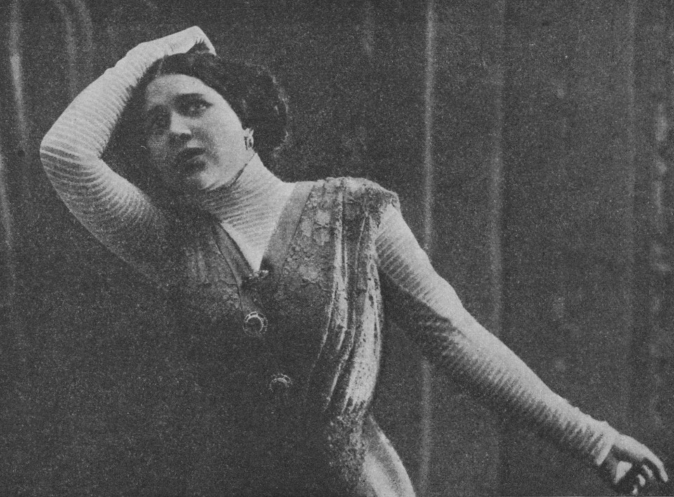 Nadyezhda Vasil'evnoi Plyevitska, Russian singer